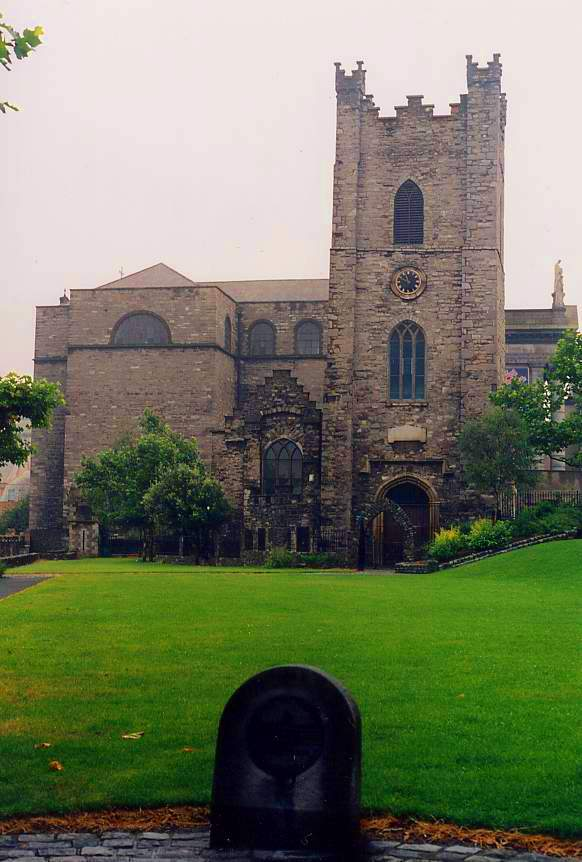 St. Audoen's Church, Dublin (Church of Ireland)